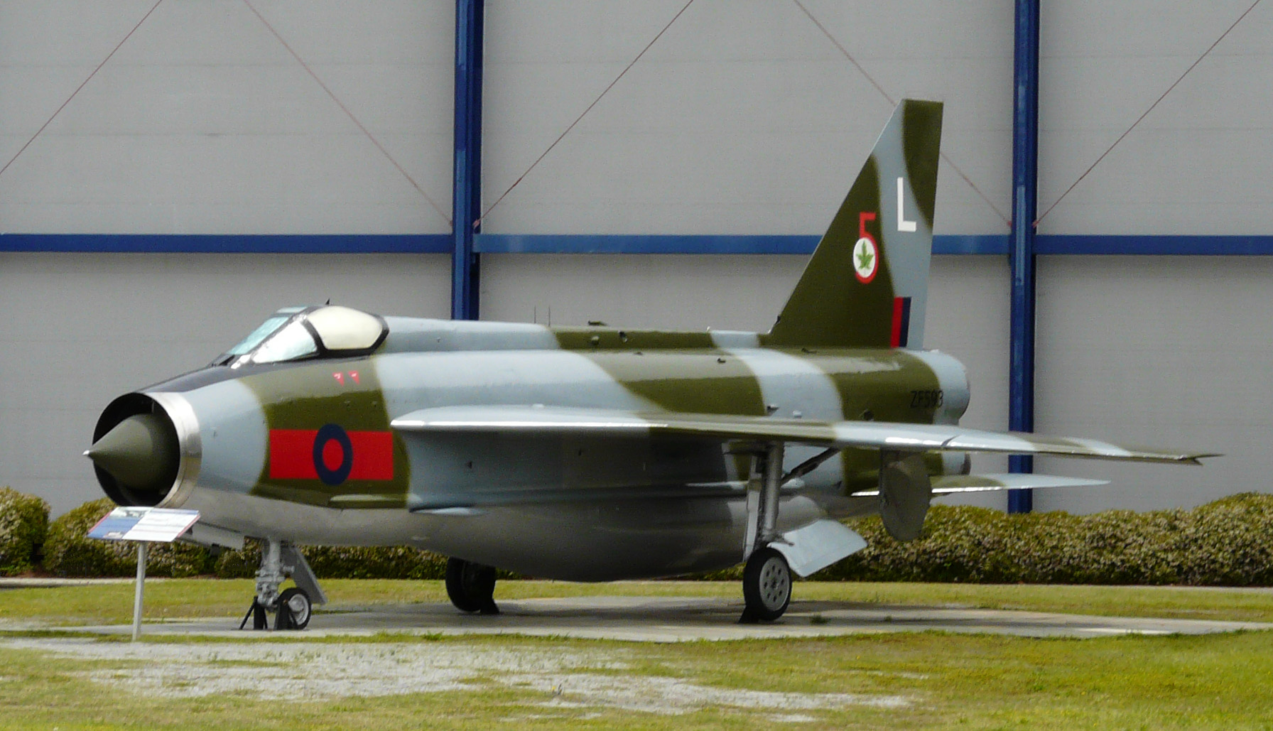 English Electric Lightning F.6, Warner-Robbins Air Museum, Georgia